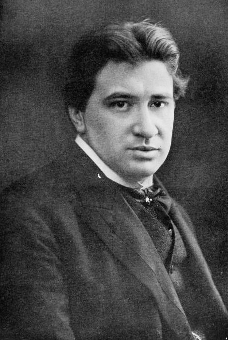 Portrait of German-Italian composer Ermanno Wolf-Ferrari (1876 – 1948)